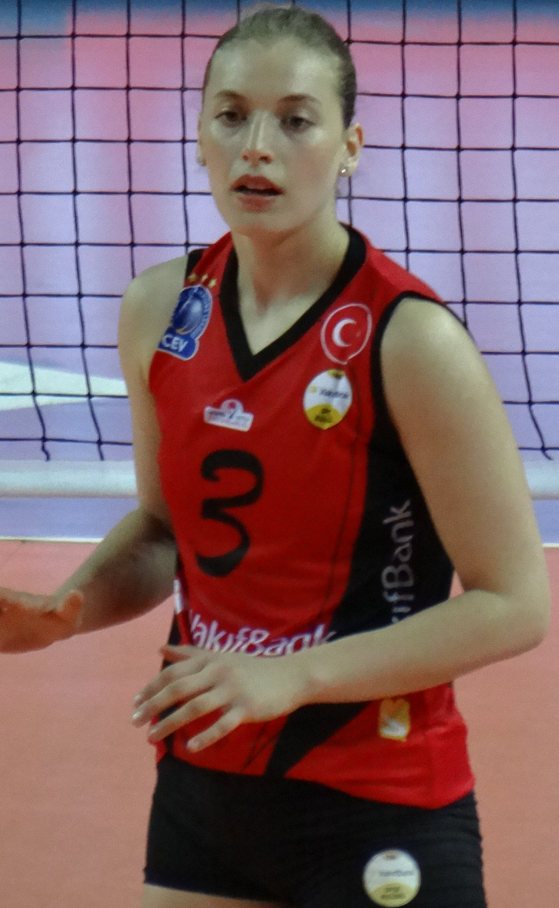 Cansu Özbay 3 Vakıfbank SK TWVL 20180426